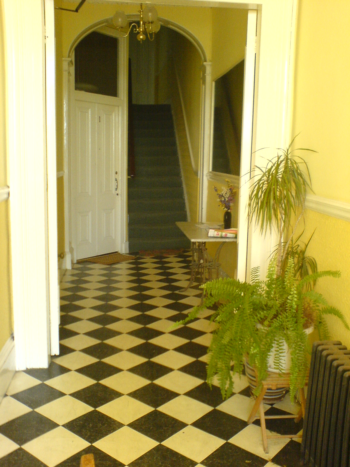 An interior view (public hallway, of house converted to flats) of the Regency townhouses on Brunswick Terrace, Brunswick Estate, Hove, East Sussex, UK